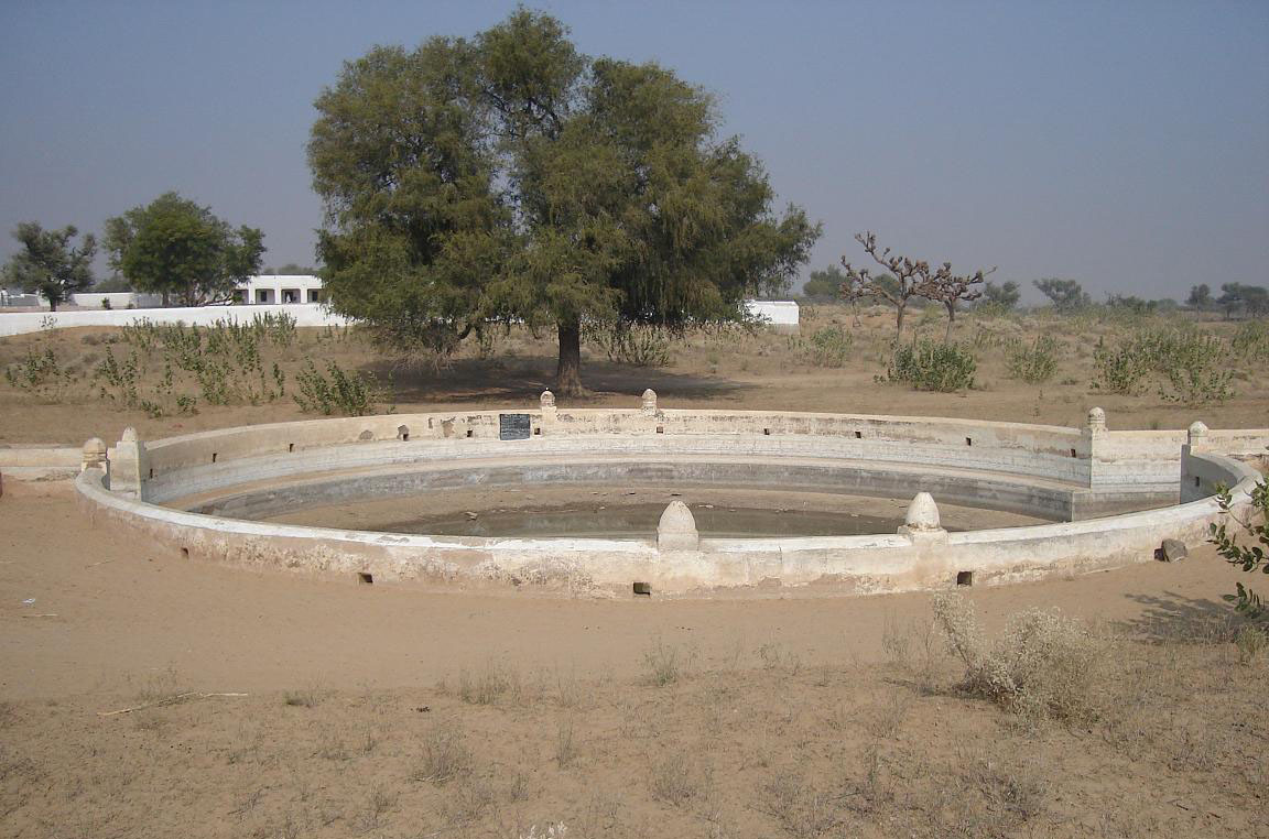 View of a Johad at village Thathawata.